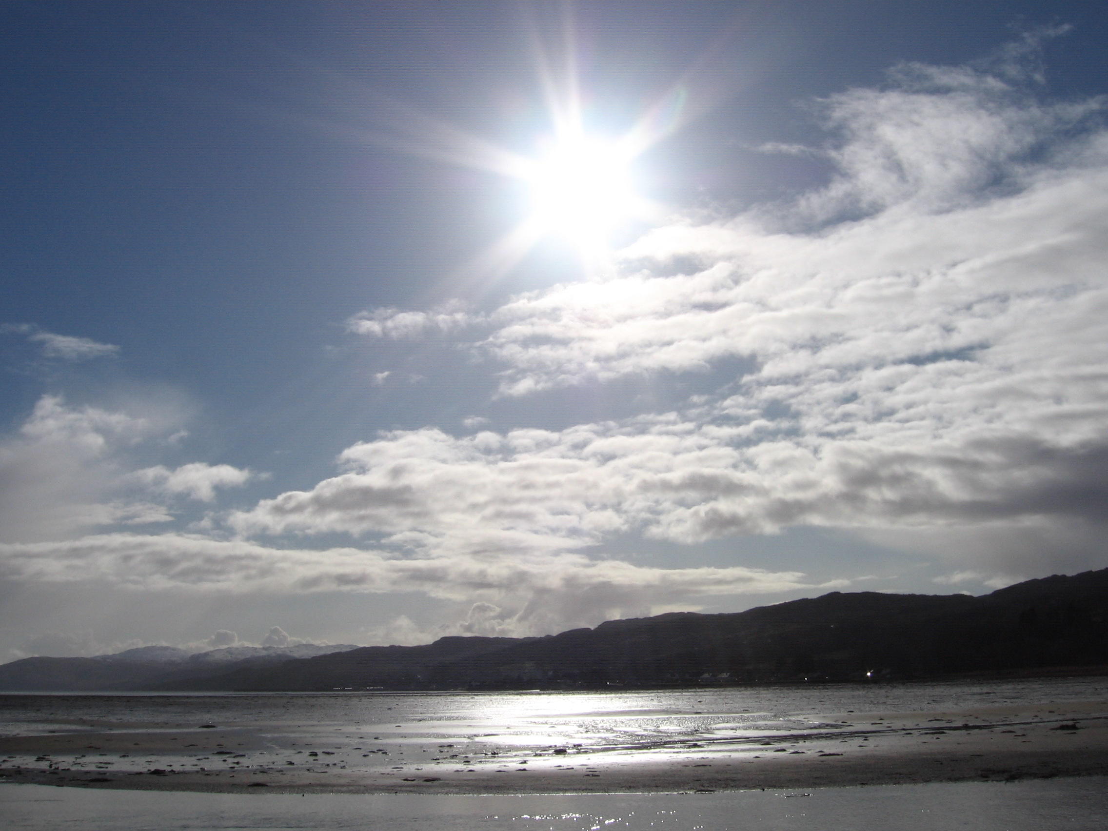 Photo of Loch Gilp in Scotland. Taken from Lochgilphead 5th March 2009.